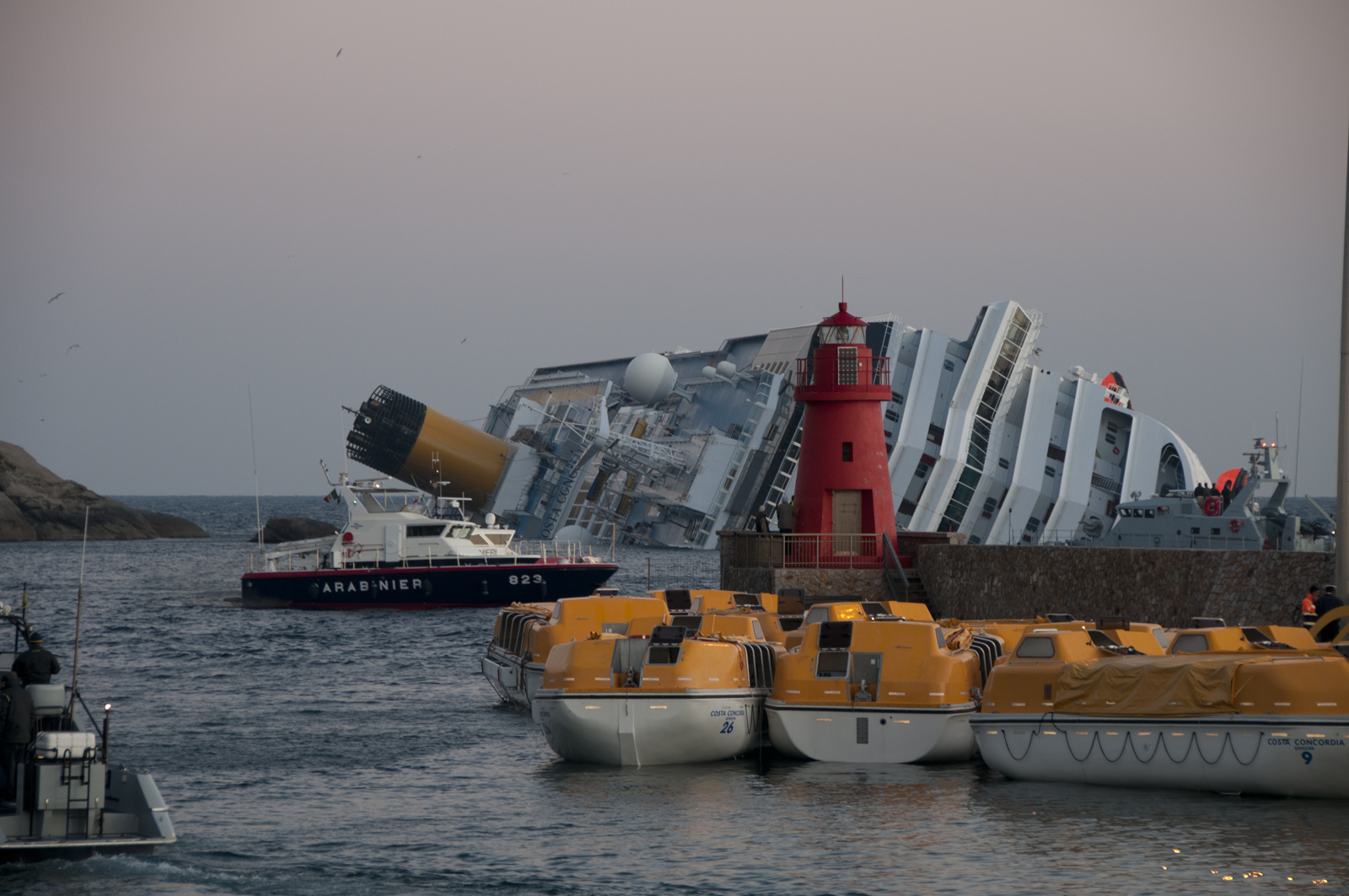 Collision of Costa Concordia Information about Costa Concordia may be found at IMO 9320544.A ship can change name and flag state through time, but the IMO number remains the same through the hull's entire lifetime. As a result, it can be useful to identify a ship by using the IMO number.